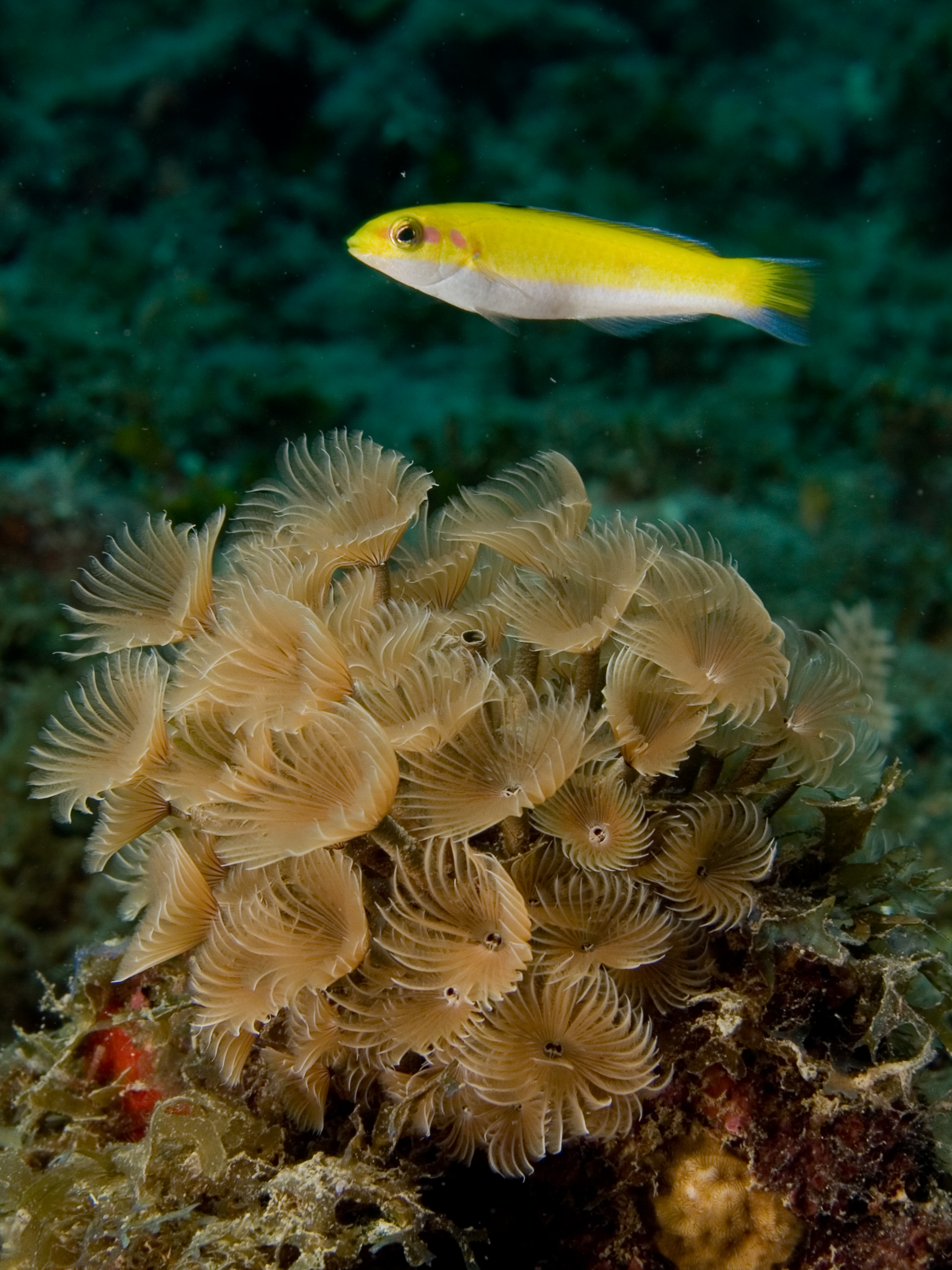 Thalassoma bifasciatum (Bluehead Wrasse) juvenile yellow stage over Bispira brunnea (Social Feather Duster Worms). See image at right for three individuals in adult supermale stage.